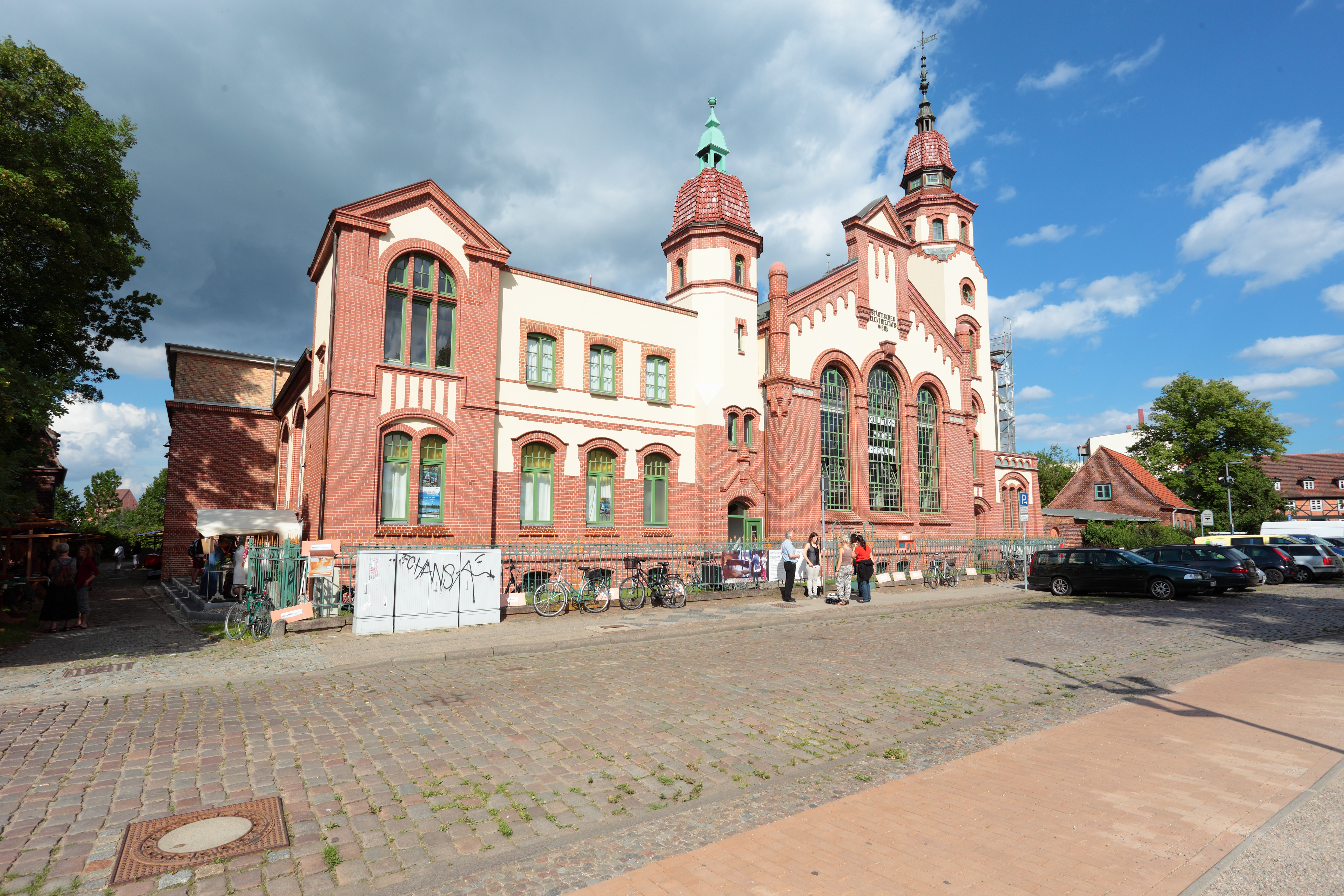 former and first power plant in Schwerin, Mecklenburg-Vorpommern, Germany